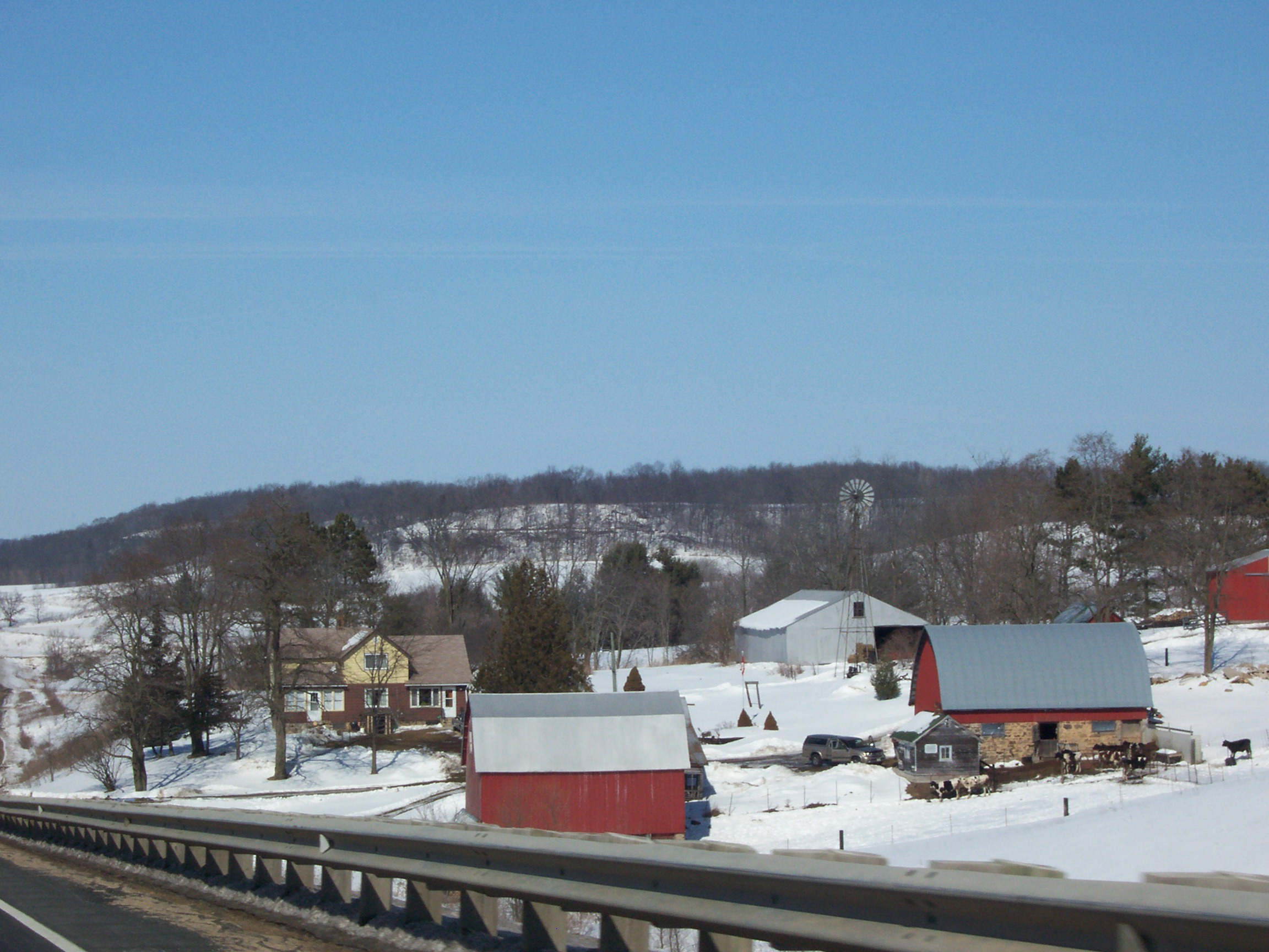 A farm in Vernon County, Wisconsin, USA immediately north of Hillsboro. Located on Wisconsin Highway 80. Taken March 11, 2007 by myself.